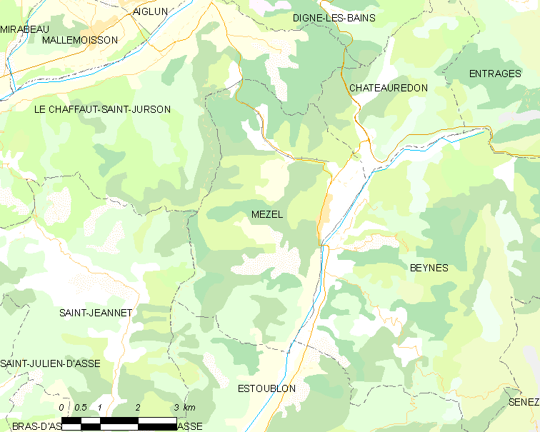 Map commune FR insee code 04121.png Légende